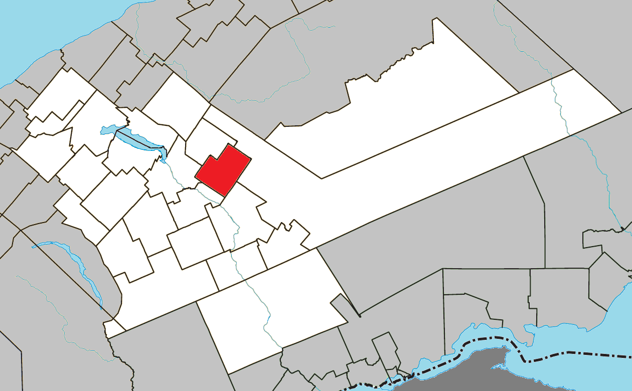 Location of Saint-Alexandre-des-Lacs, Quebec within La Matapédia Regional County Municipality.